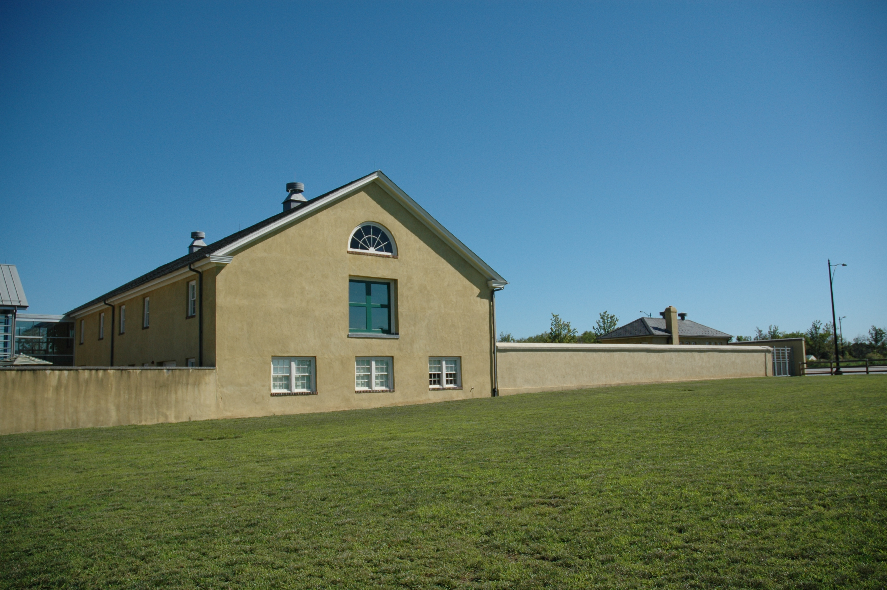 The Blueball dairy barn that was part of the Nemours estate in Wilmington DE.